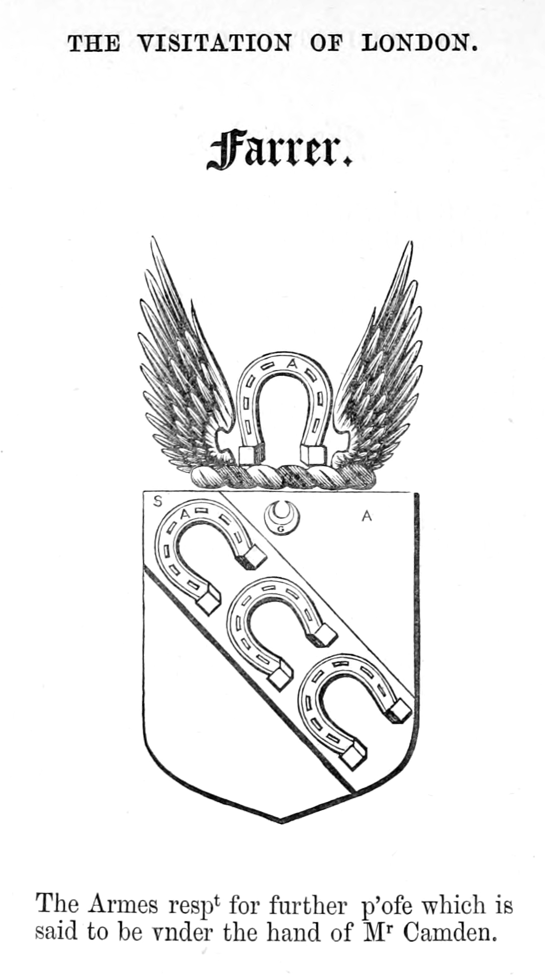 This is a picture of the Farrer Coat of Arms, from the Visitation of London. Farrar CoA is same sans the Gorget